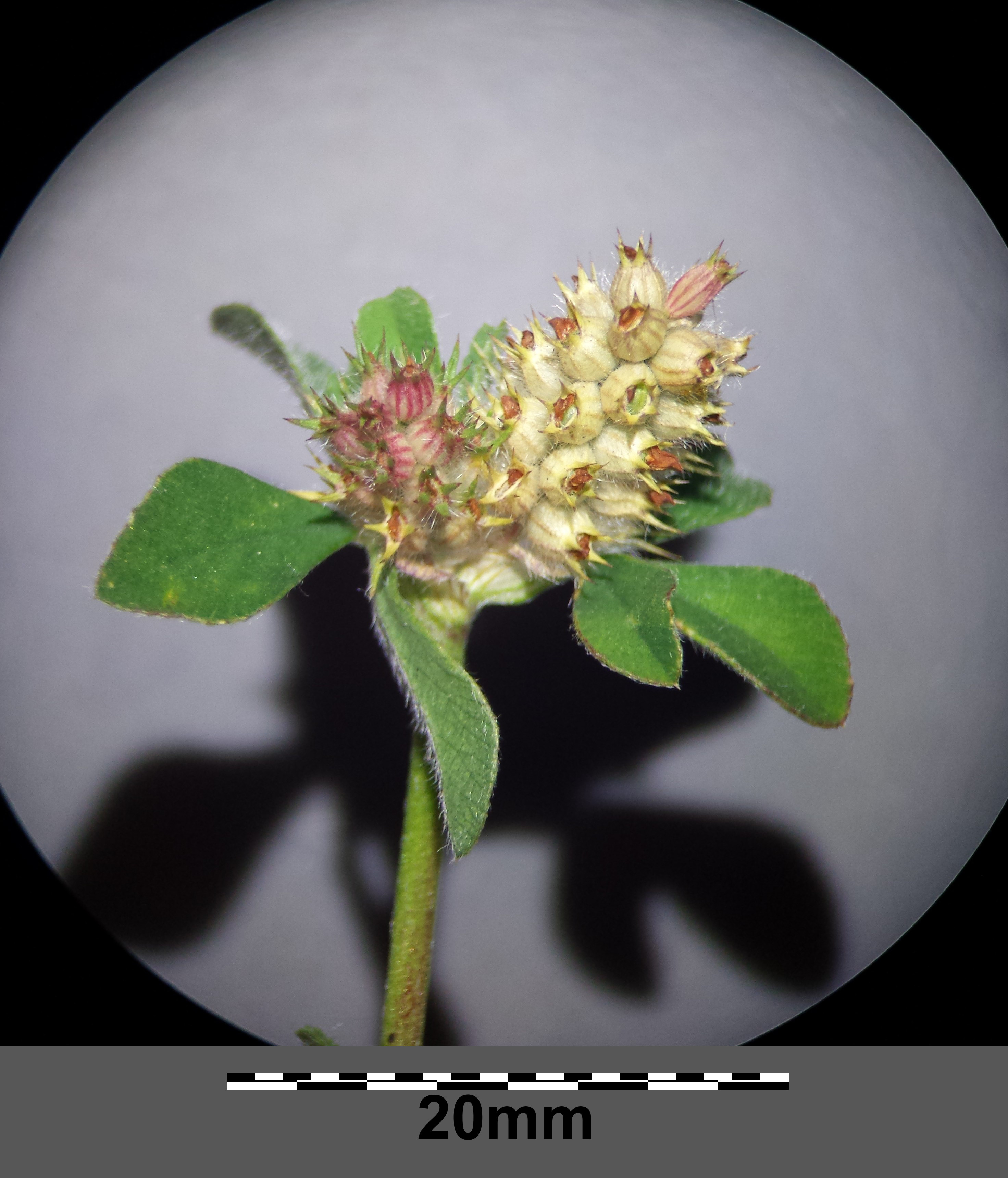 Inflorescence with capitula Taxonym: Trifolium striatum ss Fischer et al. EfÖLS 2008 ISBN 978-3-85474-187-9 Location: Korneuburg rail station, district Korneuburg, Lower Austria - ca. 170 m a.s.l. Habitat: ruderal meadows